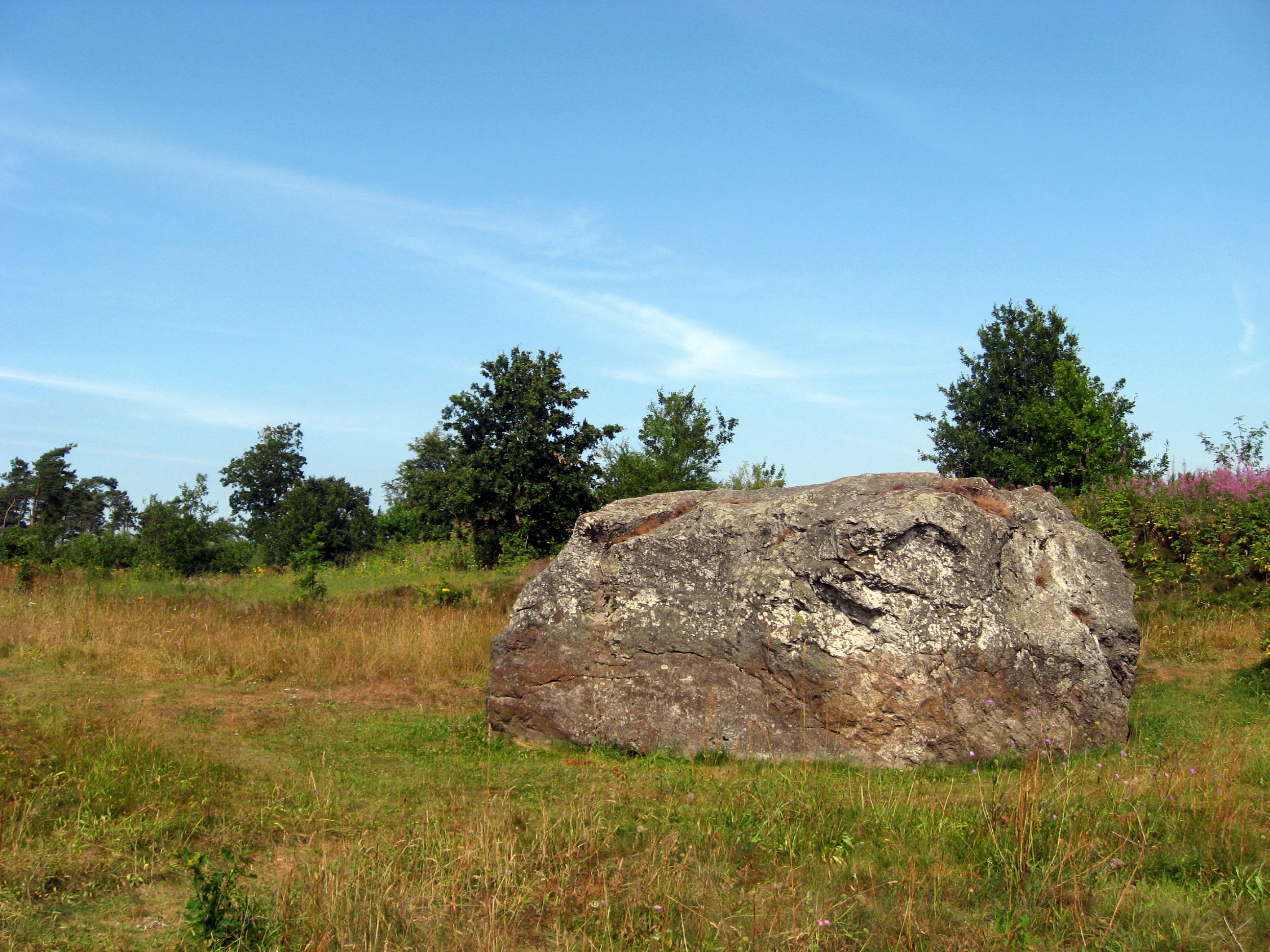 Janum Kjøt, a glacial erratic in the northern Denmark